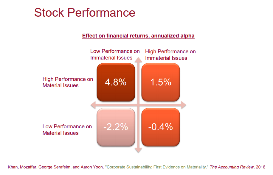 Stock performancce